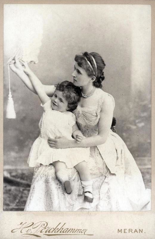 Infanta Maria Josepha of Portugal (Duchess in Bavaria) with one of her children.